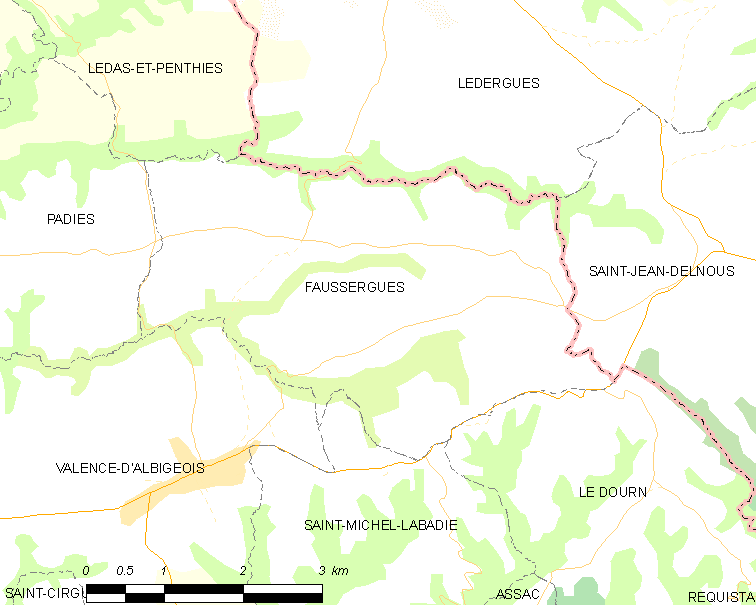 Map of French municipality Faussergues